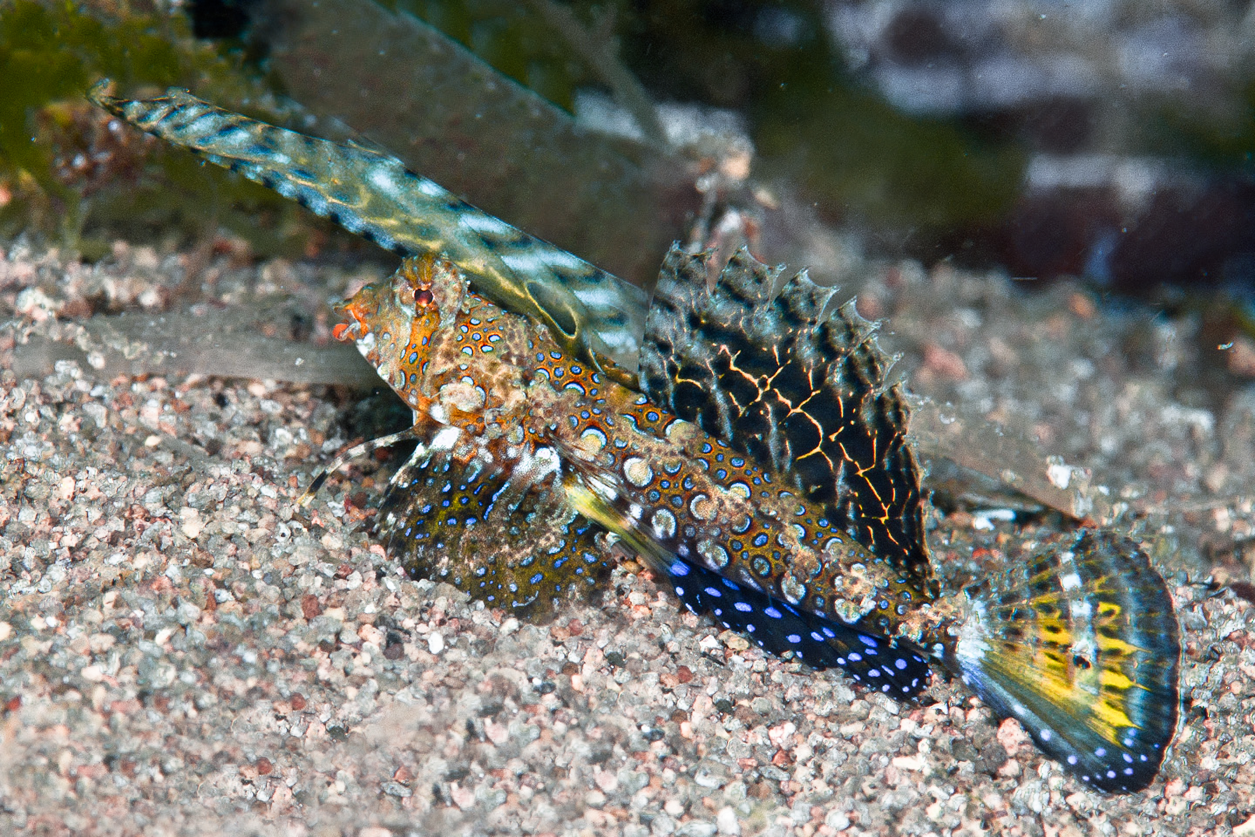 Marine bottom crawling member of Scorpionfish family; Latin name Dactylopus kuiteri; English name Orange and Black Dragonet; photographed off Dumaguete in the Philippines